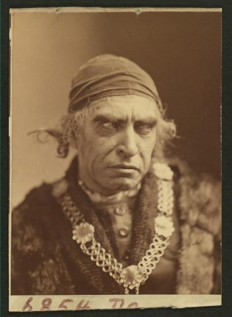 Actor William E. Sheridan in character